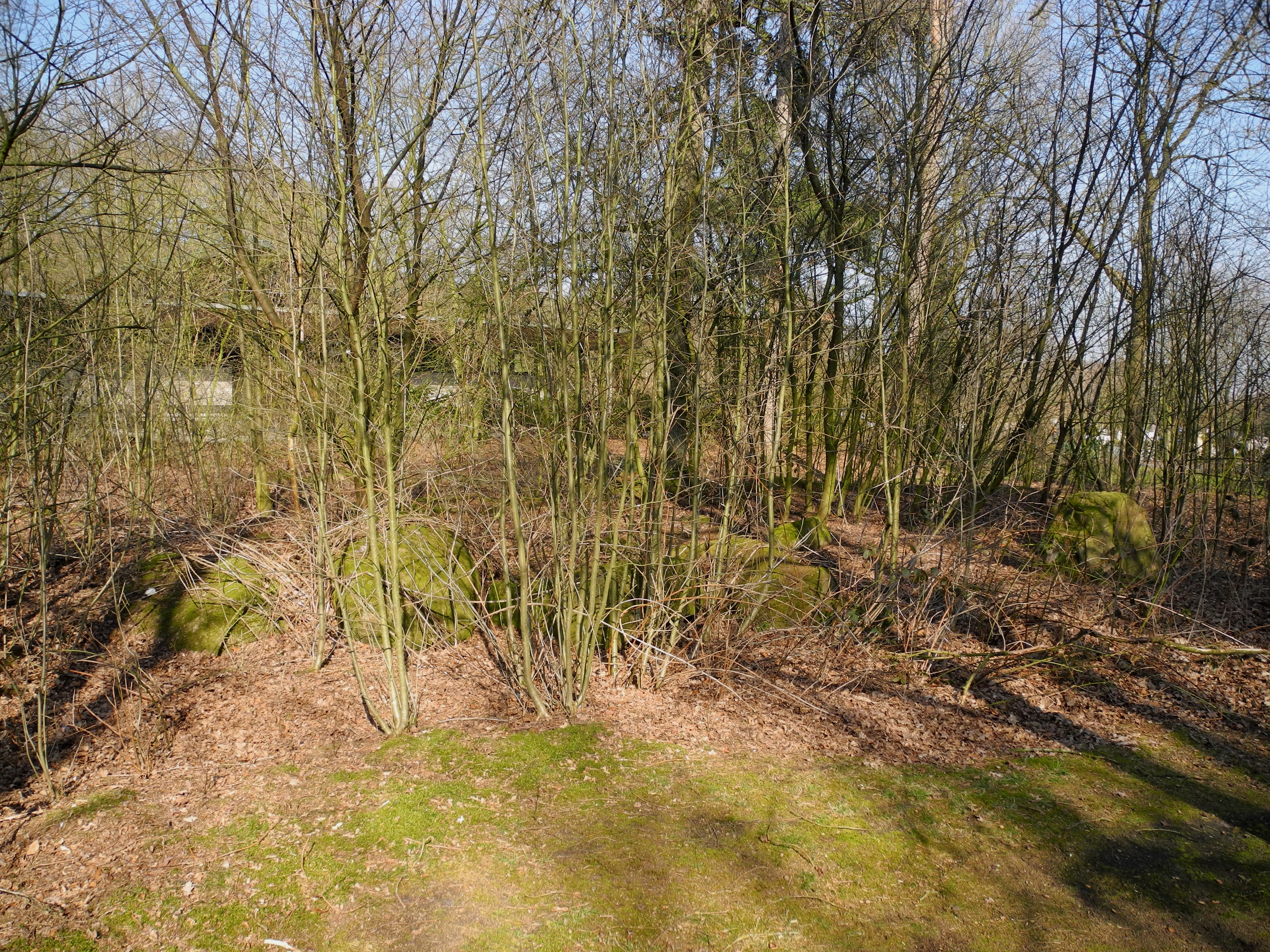 Megalithic tomb "Hünensteine II" near Damme (district Vechta, Lower Saxony).